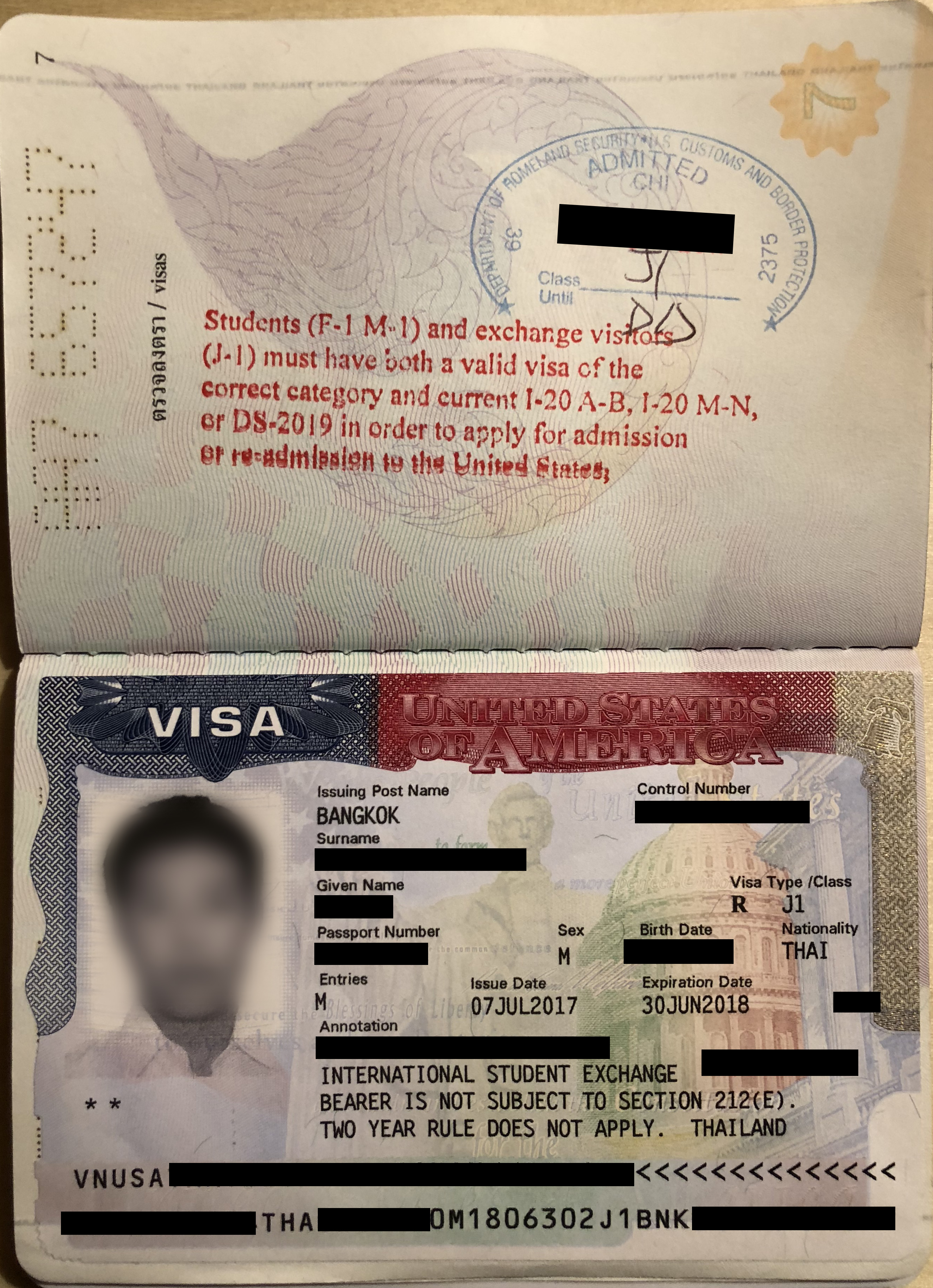 J1 Visa of the United States